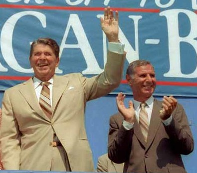 President Reagan and Nancy Reagan on the campaign trail with Governor George Deukmejian and Senator Pete Wilson at Mile Square Regional Park in Fountain Valley, California. 9/3/84.